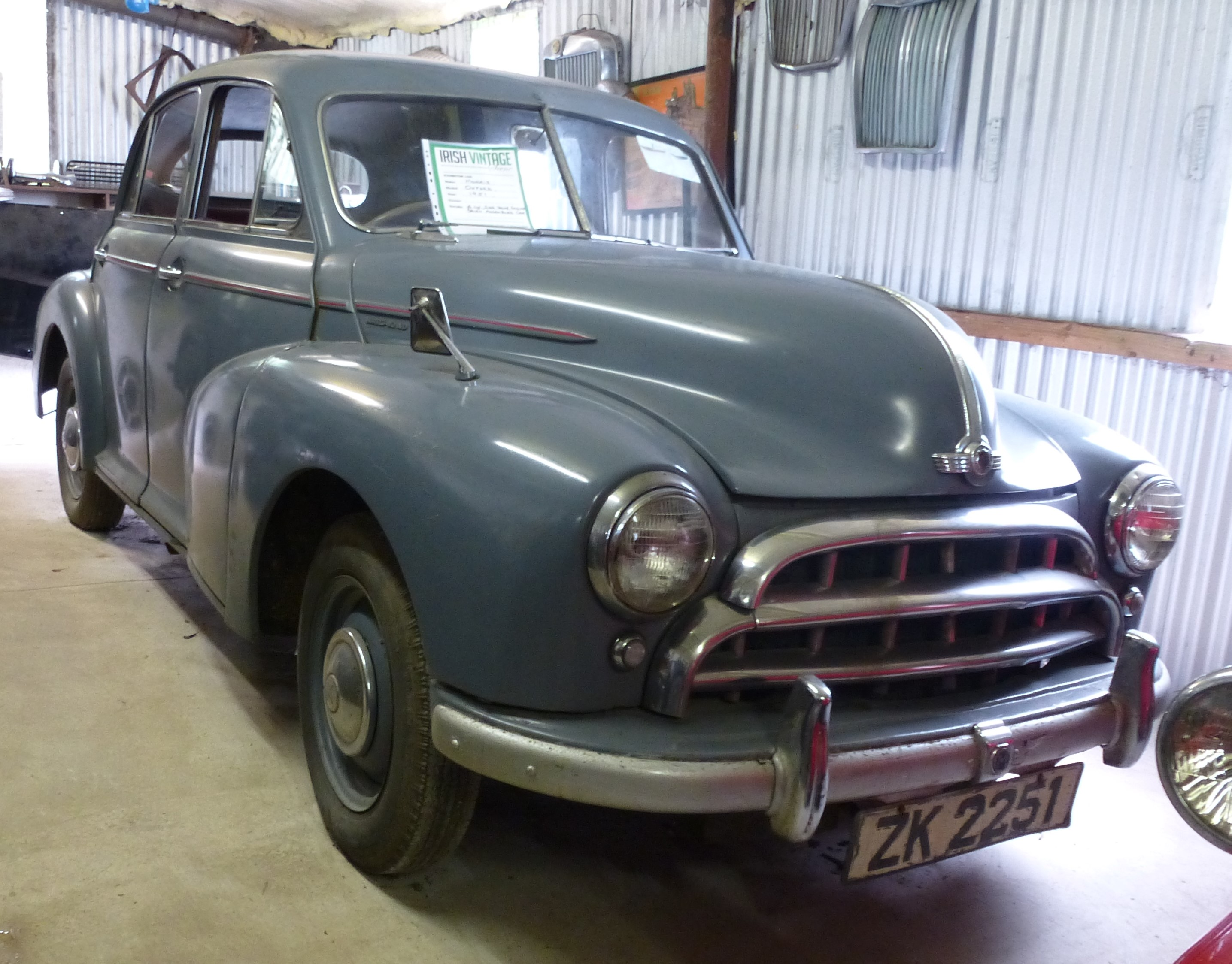 Morris Oxford MO von G. A. Brittain aus Irland